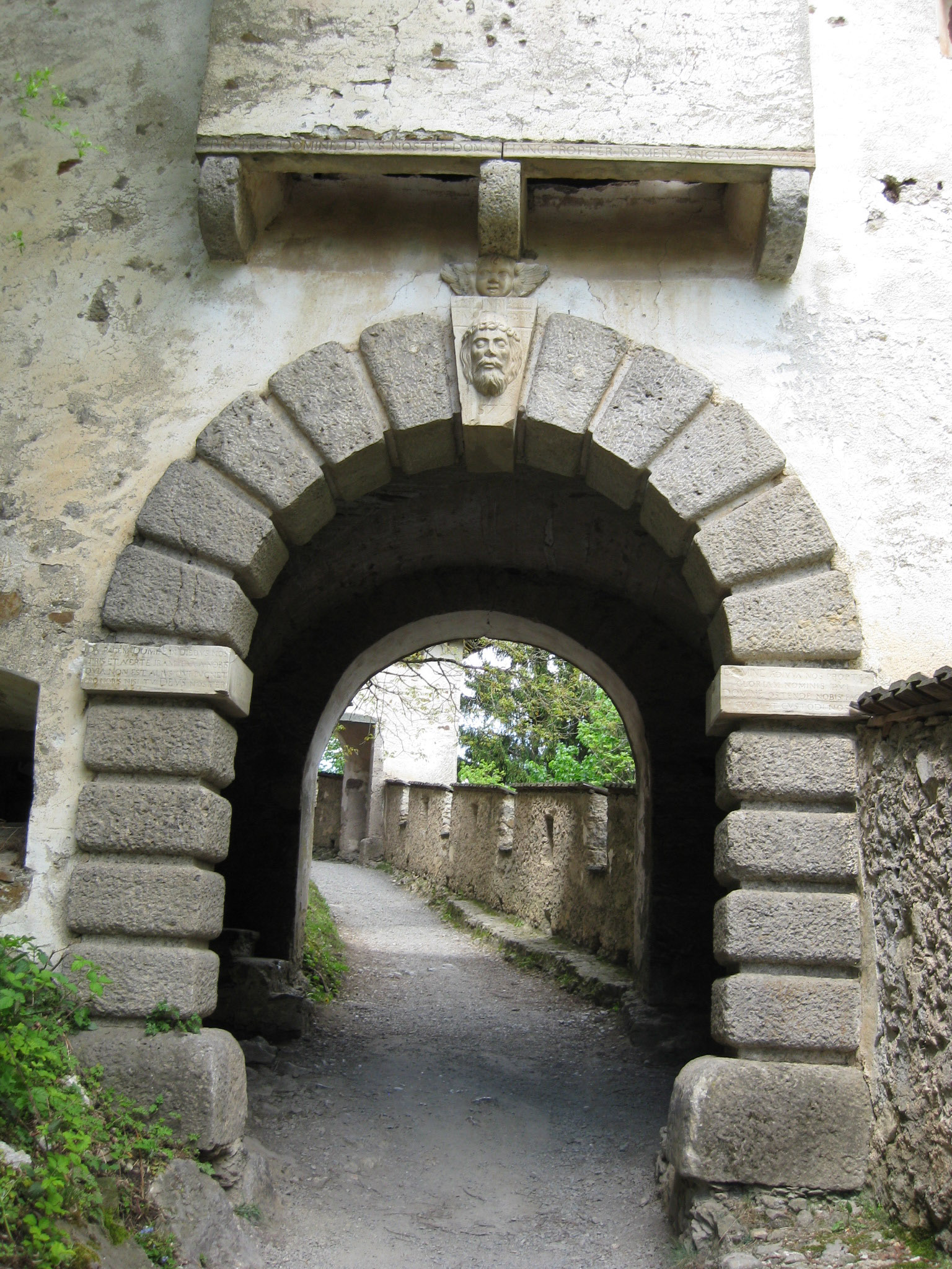 Hochosterwitz castle (slovenian: grad Ostrovica), castle in Carinthia state, Austria 2nd door